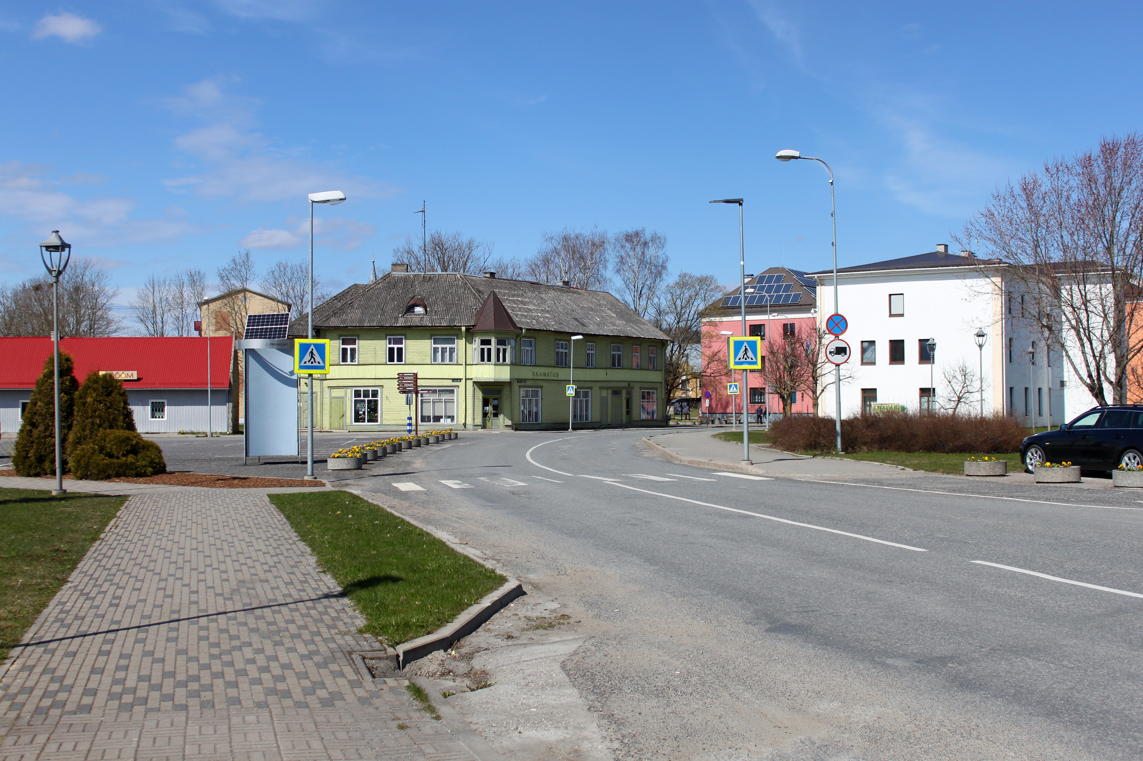 Central square of Tapa town on May 1, 2020 (Estonia)